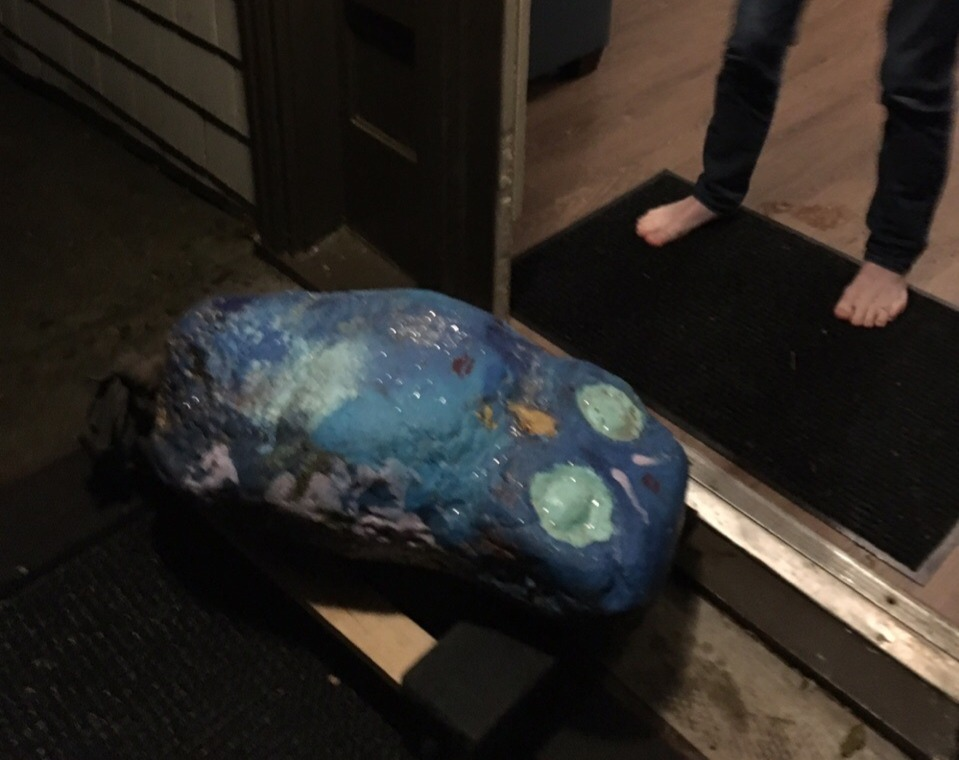 the Doyle owl in its habitat